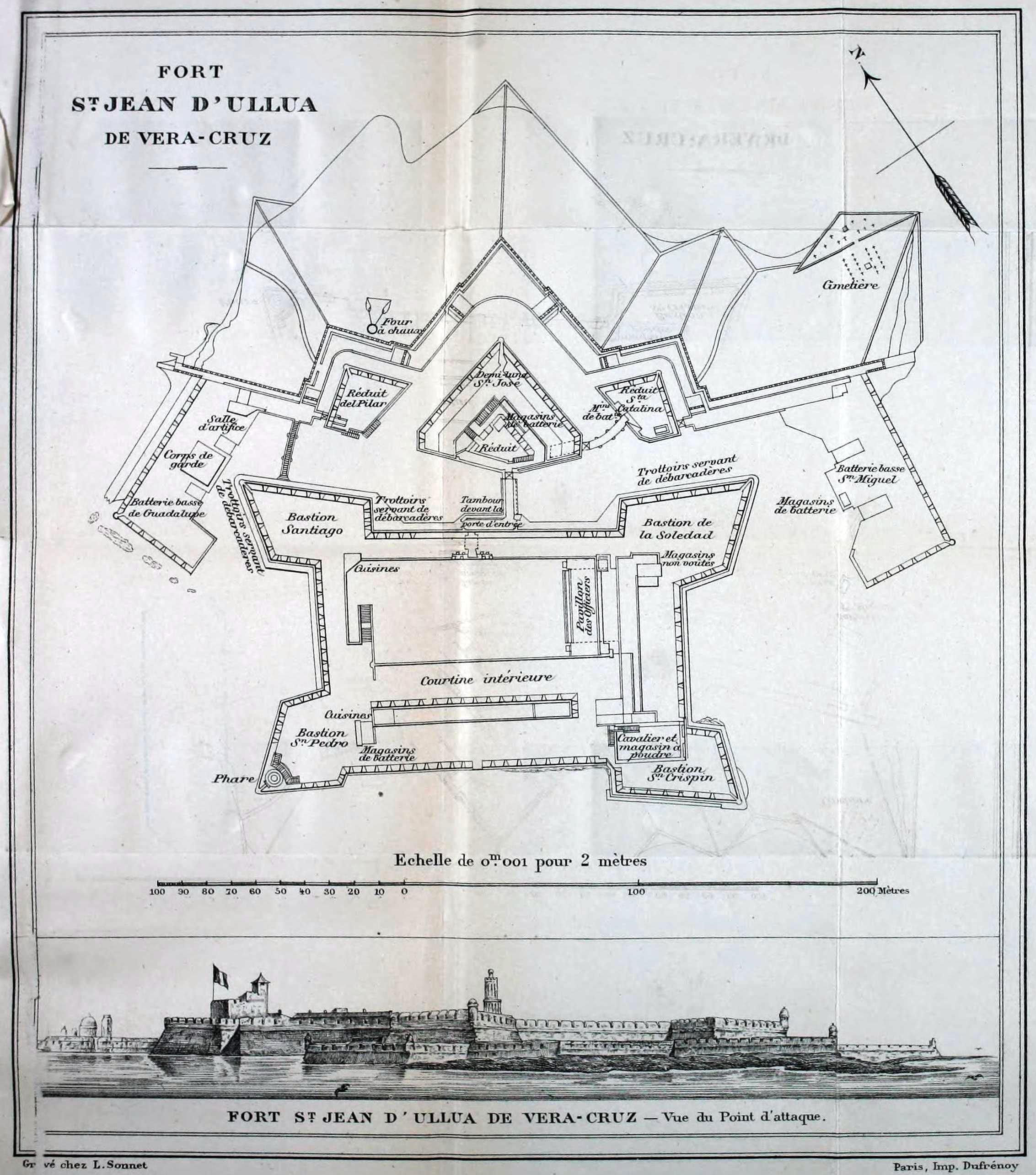 Plan and panorama of the fort of Saint-Jean de Ulloa in 1838, at the time of the conflict between the France and the Mexico.